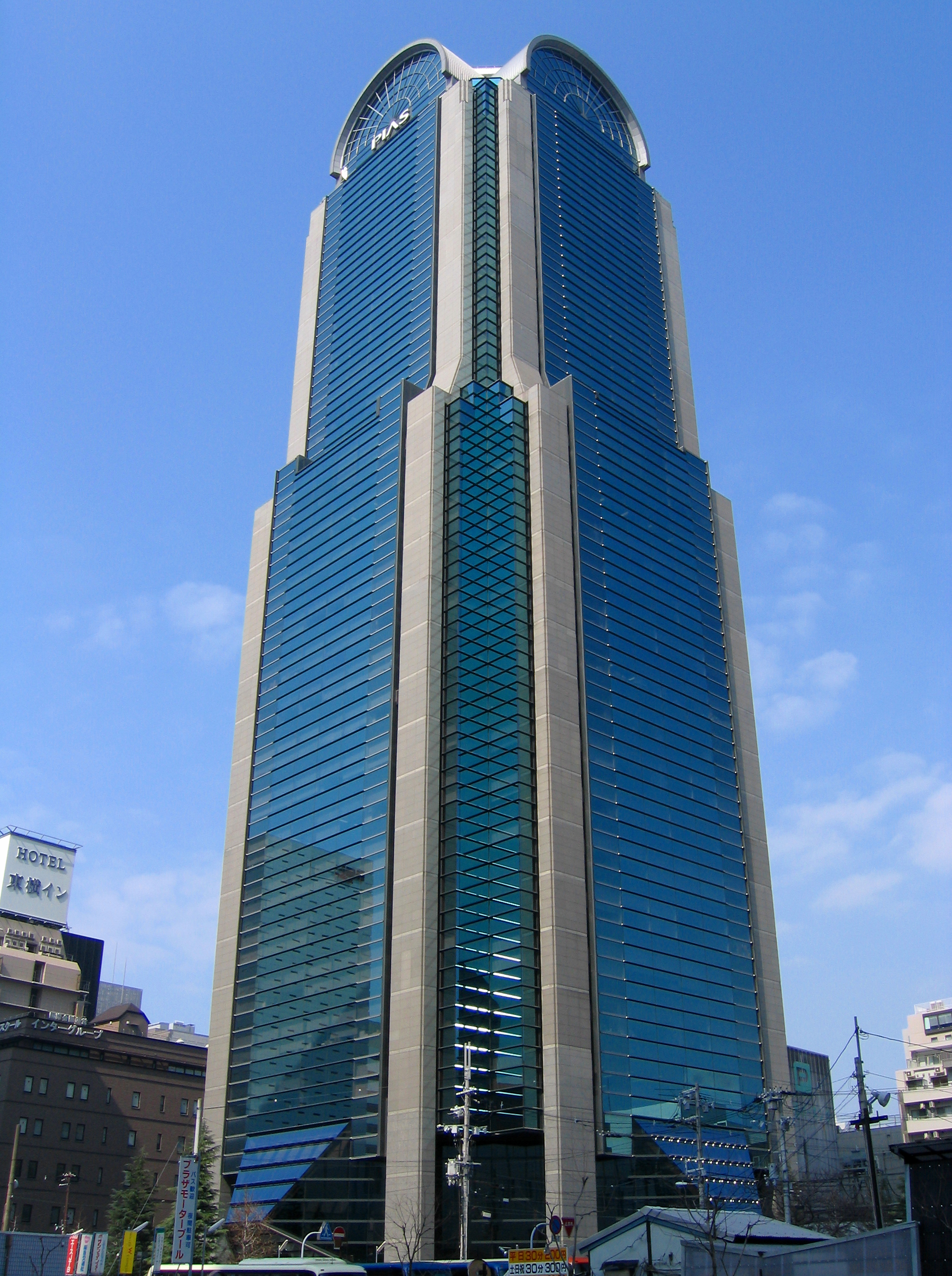 The building of this photograph is the "PIAS Tower" in Kita-ku, Osaka-shi. As for this building, the head office of a cosmetics related company "PIAS" lives. Refer to the wikipedia Japanese version for details.ピアス (企業)